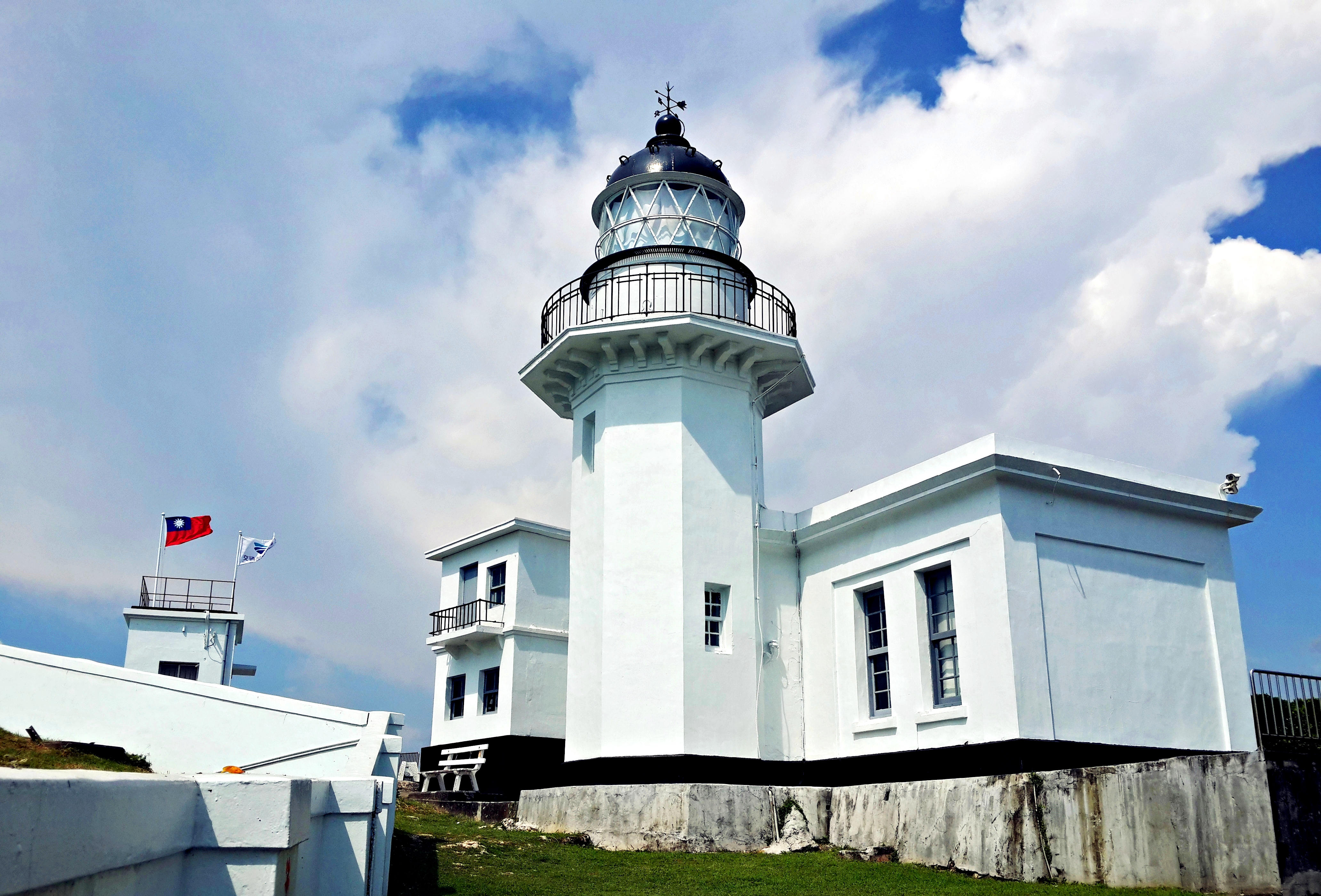 中文（台灣）: 高雄燈塔又稱旗後燈塔，位處高雄市旗津區旗後山山頂，建於1883年，日據時期，日人為擴建高雄港又重修燈塔，目前為三級古蹟，自旗津市區有步道可前往。 Situated atop Cihou Mountain, the snow-white, dazzling Cihou Lighthouse which watches over Kaohsiung Port is a symbol of Kaohsiung. The square lighthouse was built by the British to provide ships with illumination in 1883. An octagonal domed brick tower was constructed beside the original lighthouse in 1918 in the Japanese Colonial Era. With its white base and black top, and a balcony running round the outside, the 15.2- meter tower is very striking. The broad perspective its location on Cihou Mountain affords it allows one to take in all of the scenery of the Taiwan Strait and Kaohsiung City at a glance.